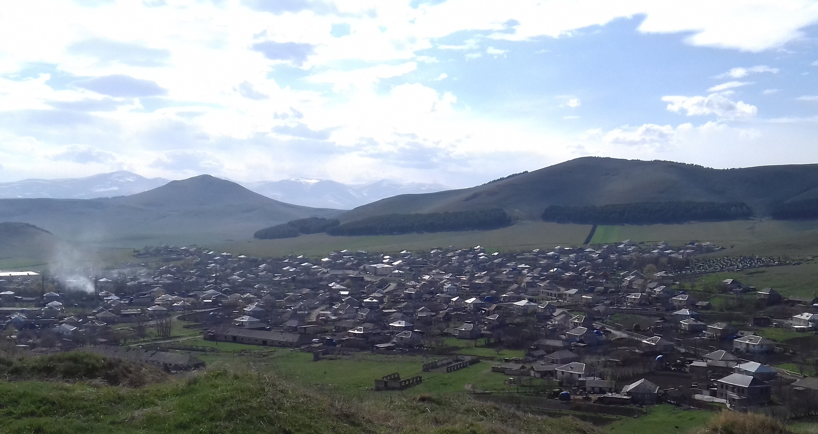 Lernahovit on April 24, 2016